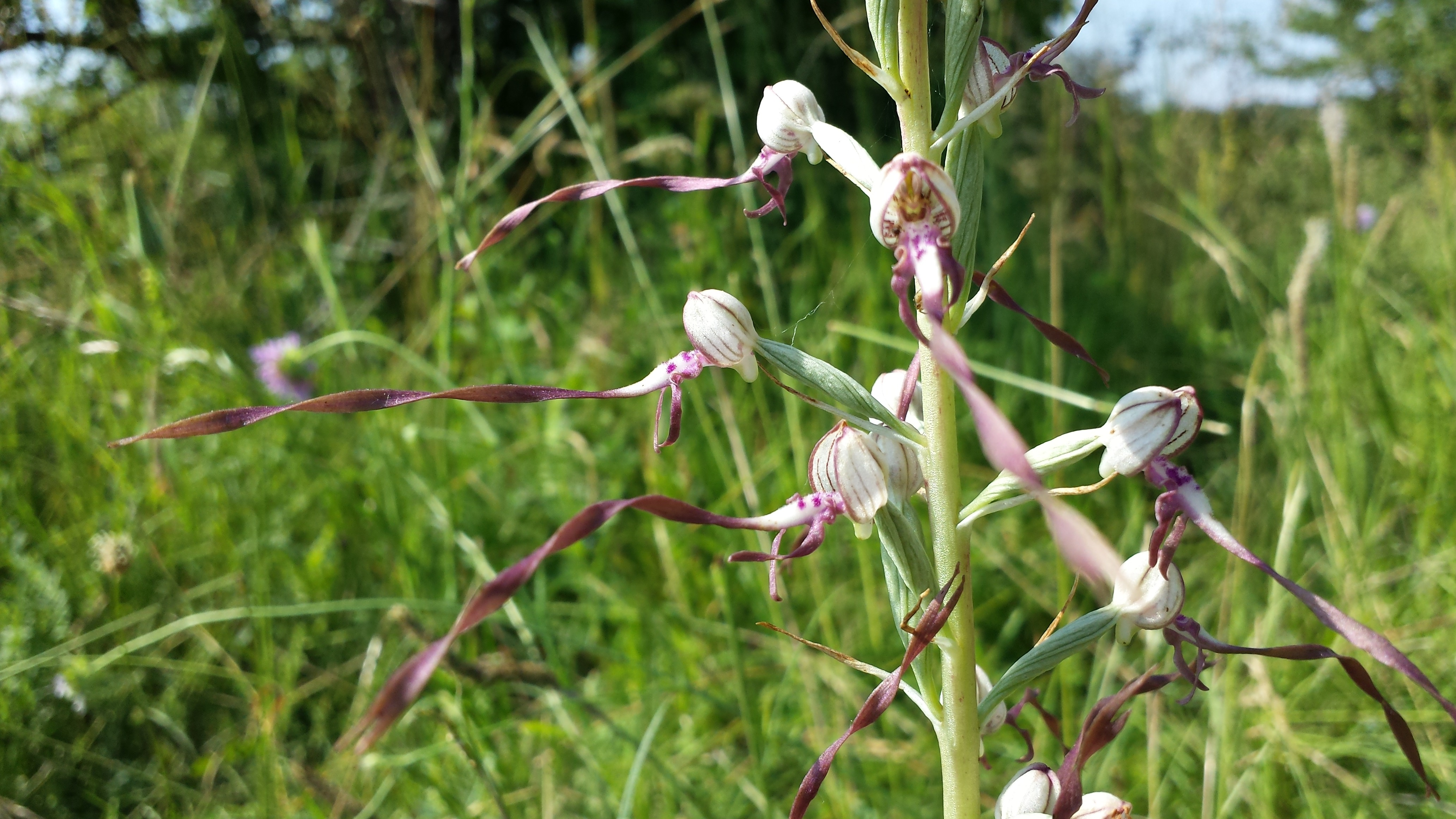 Taxon: Himantoglossum adriaticum (sensu Fischer et al. EfÖLS 2008) Location: Alte Schanzen, object X, Floridsdorf, Vienna - ca. 225 m a.s.l. Habitat: dry grassland